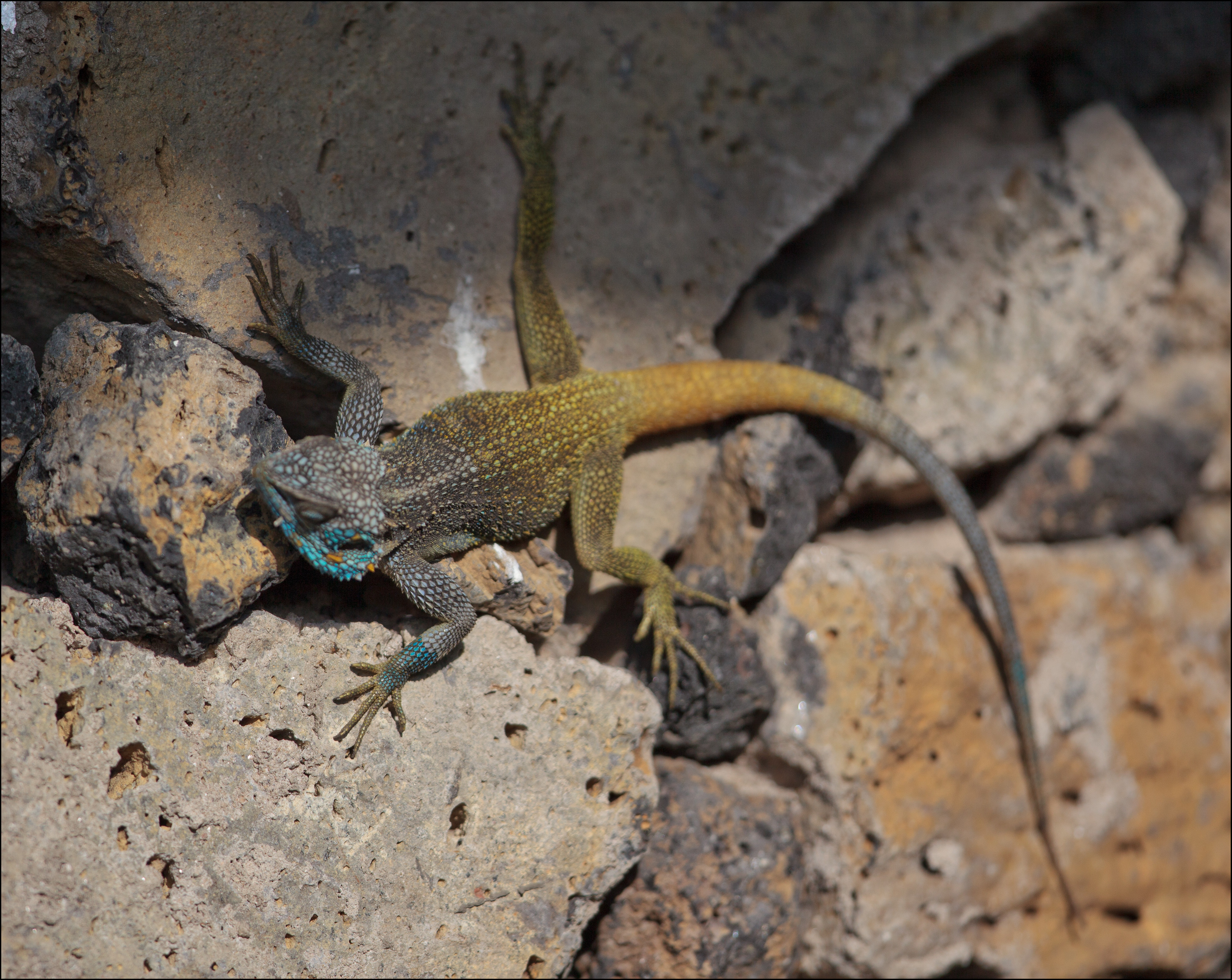 Southern tree agama taken on the shores of Lake Kivu in Rwanda